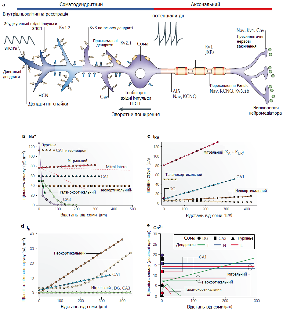 Images adapted and modified from "The distribution and targeting of neuronal voltage-gated ion channels" and "Emerging rules for the distributions of active dendritic conductances." In general, Nav channels are found in the axon initial segment (AIS), nodes of Ranvier and presynaptic terminals. Voltage-gated potassium Kv1 channels are found at the Juxtaparanodes (JXPs) in adult myelinated axons and presynaptic terminals. The Kv channel KCNQ is found at the AIS and nodes of Ranvier, and Kv3.1b channels are also found at the nodes of Ranvier. Canonically, excitatory and inhibitory inputs (EPSPs and IPSPs — excitatory and inhibitory postsynaptic potentials; yellow and blue presynaptic nerve terminals, respectively) from the somatodendritic region spread passively to the AIS where action potentials are generated by depolarization, and travel by saltatory conduction to the presynaptic nerve terminals to activate voltage-gated calcium (Cav) channels that increase intracellular calcium levels, thereby triggering neurotransmitter release. Hyperpolarization-activated cyclic-nucleotide-gated (HCN) channels have a gradient distribution that increases in density from the soma to the distal dendrites (dark blue shading). Kv2.1 channels are found in clusters on the soma and proximal dendrites (light yellow ovals). Kv3 channels are found throughout the dendrite. Kv4.2 channels are located more prominently on distal dendrites (light blue shading). Kv channels in the dendrites contribute to controlling back propagation. Strong enough inputs in the dendritic region can generate dendritic action potentials. Dendritic Cav channels increase in density toward the proximal dendrites and the soma.